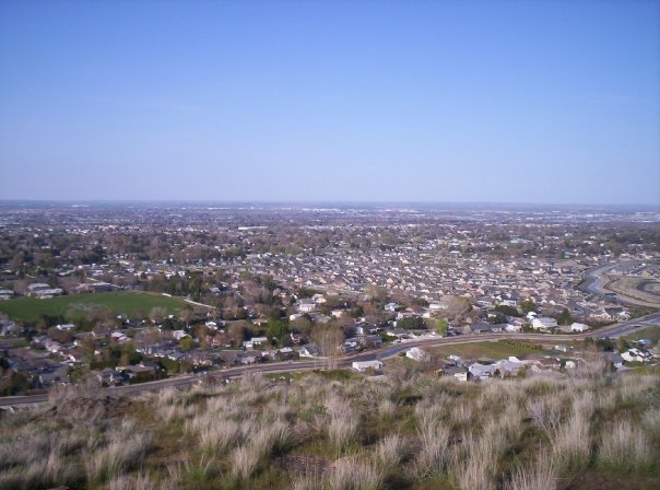 Looking northeast from the top of Thompson hill in Kennewick.